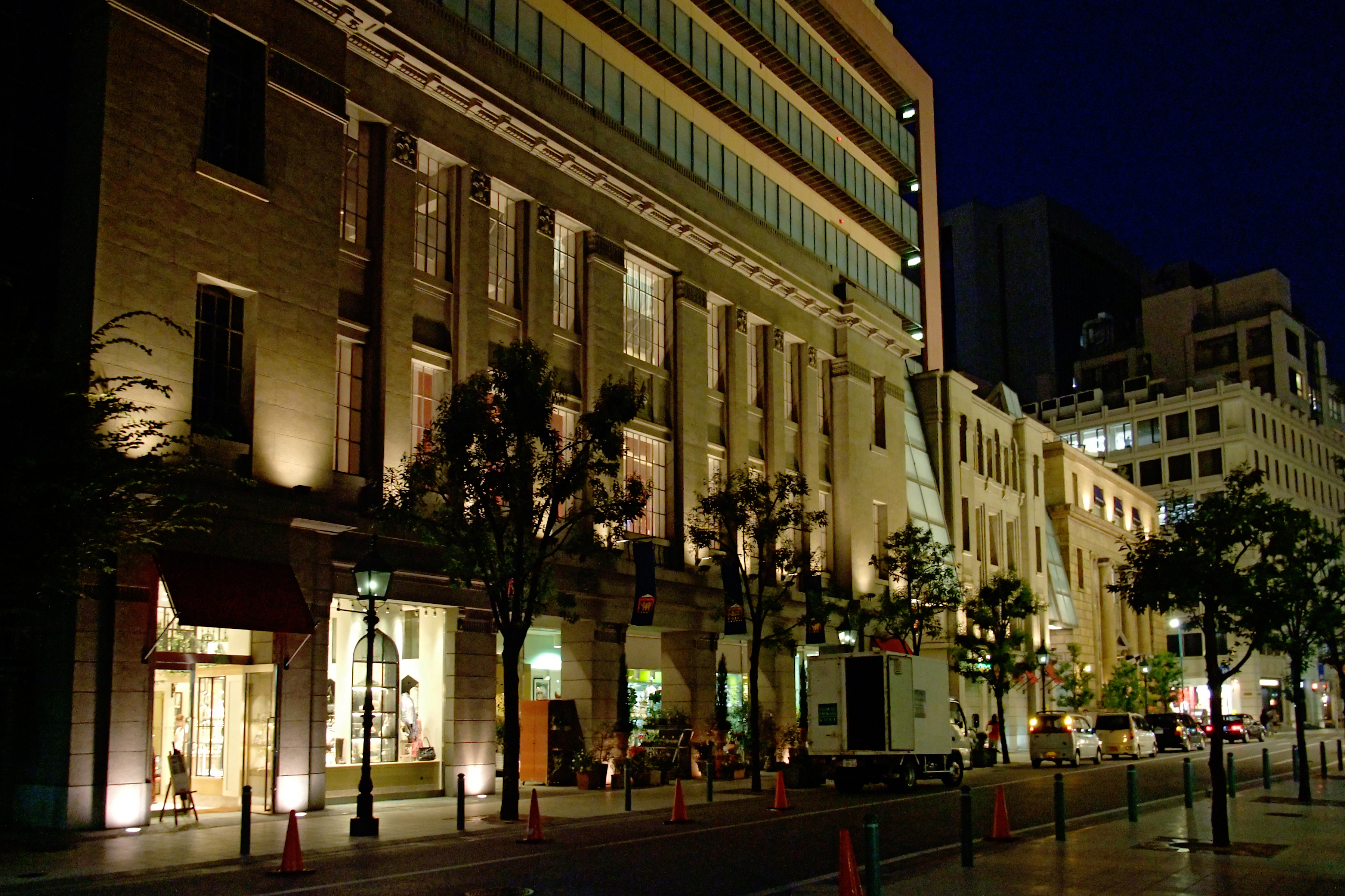 Nakamachi-street in Kyukyoryuchi (Former Foreign Settlement of Kobe), Kobe, Hyogo prefecture, Japan